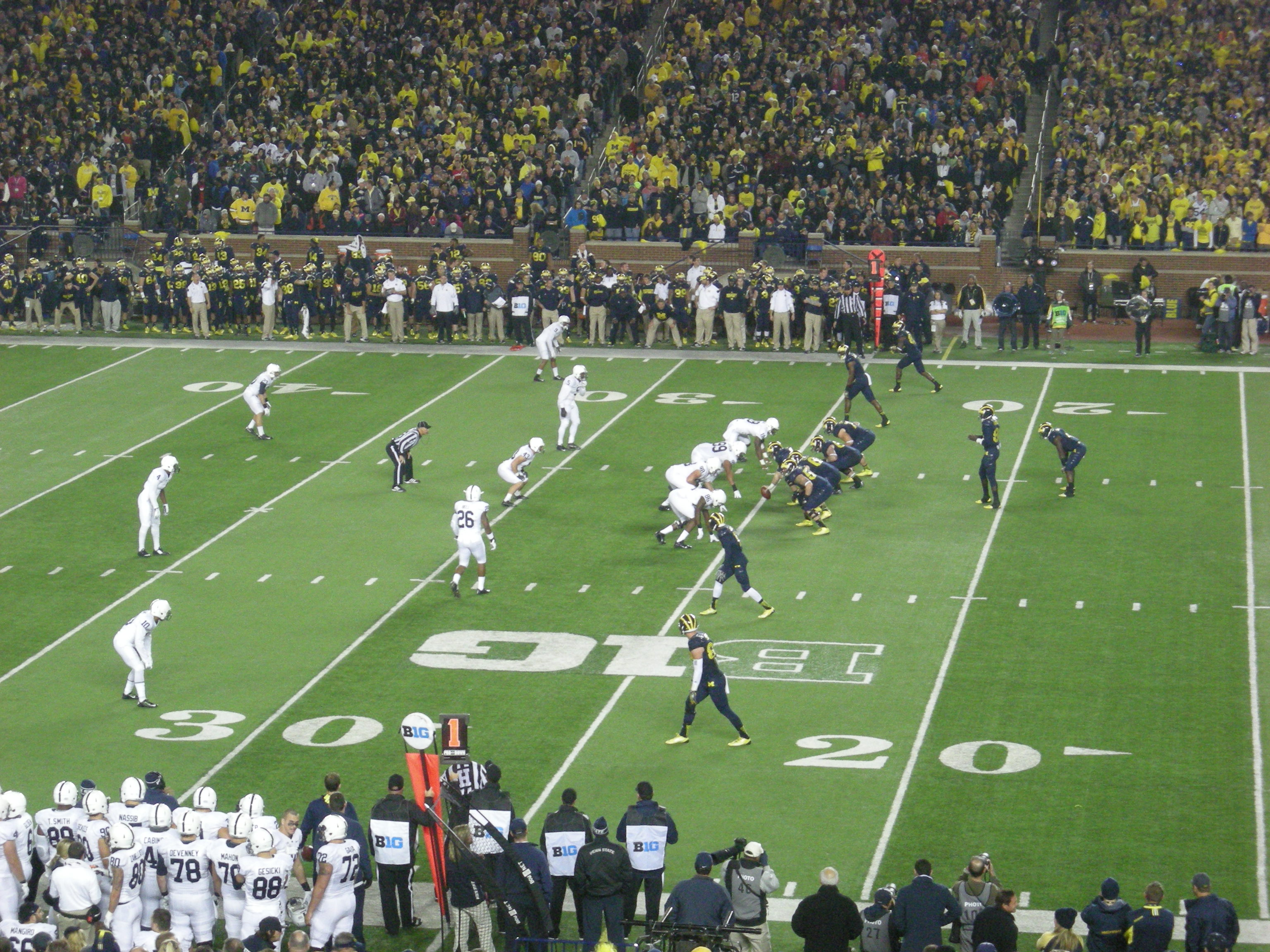 Michigan on offense during the Penn State Nittany Lions vs. Michigan Wolverines football game at Michigan Stadium in Ann Arbor, Michigan (United States). Michigan won 18–13.